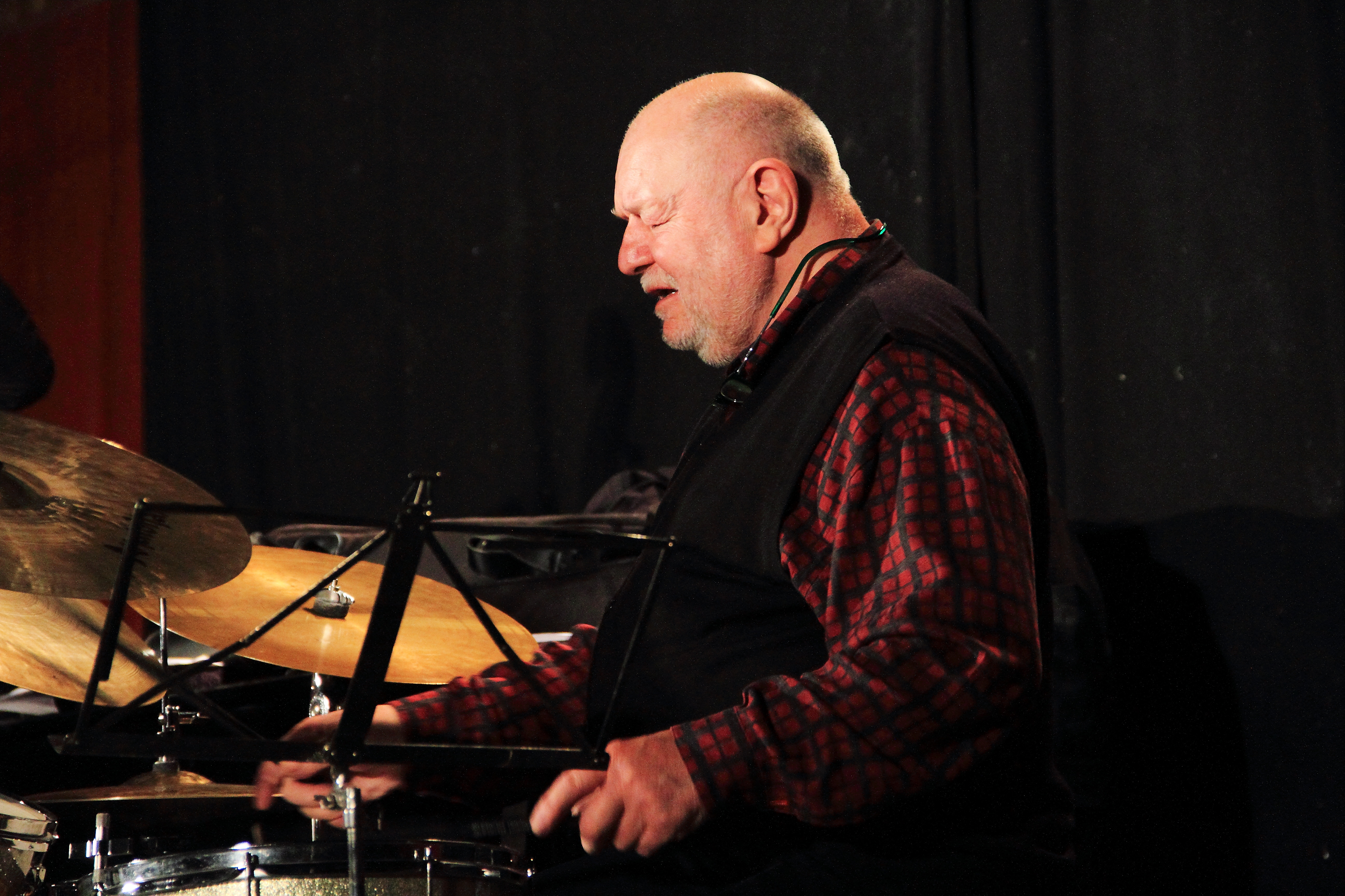 Dudek/Haurand/Humair at INNtöne Jazzfestival, Austria 2016.